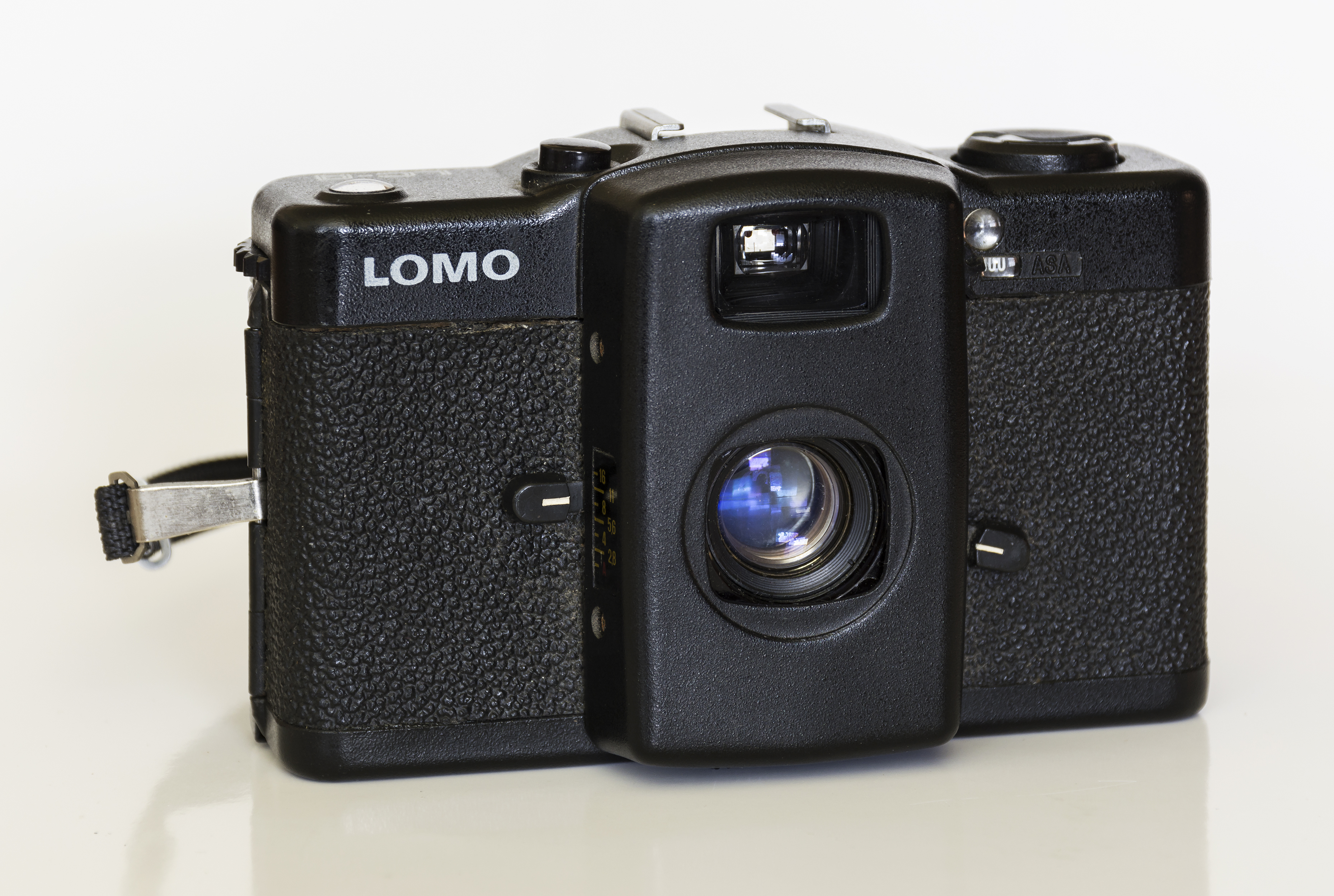 LOMO LC-A